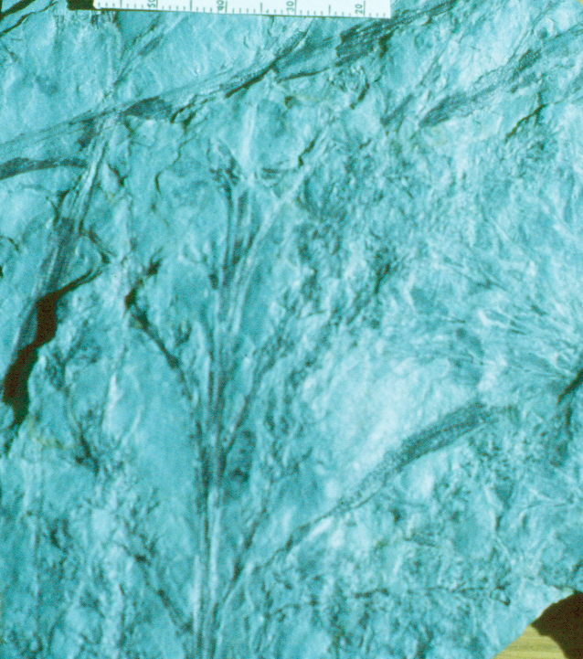 Fertile specimen of the fossil plant Archaeopteris macilenta from Late Devonian of Deposit NY in Delevoryas laboratory at University of Texas in 1978